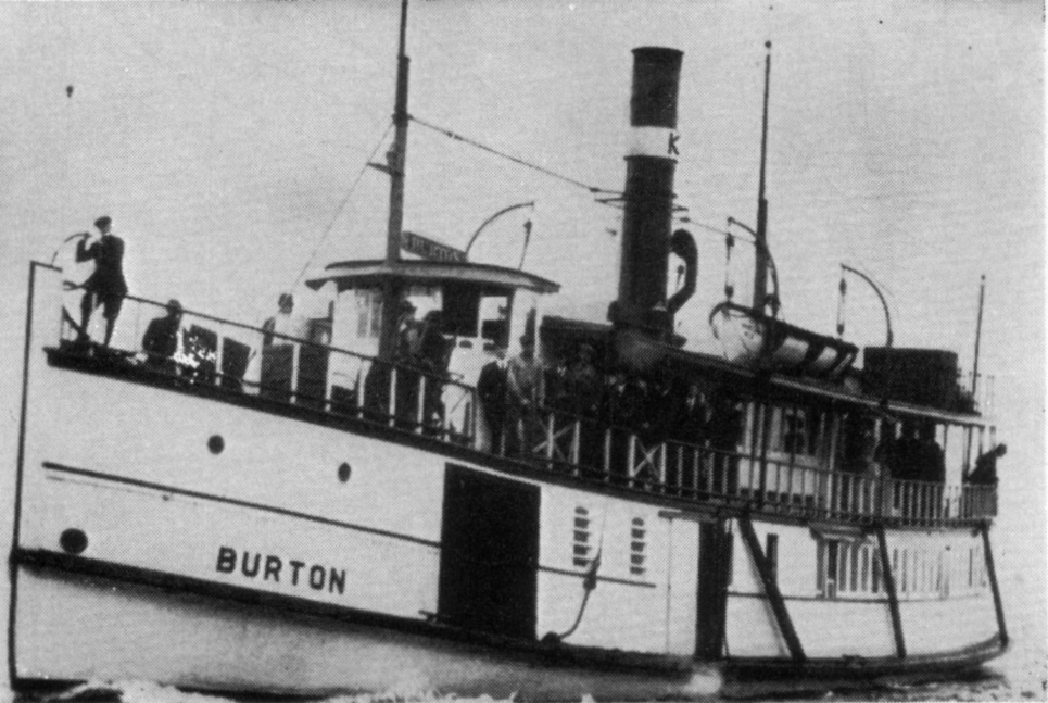 Steamer Burton, somewhere on Puget Sound.